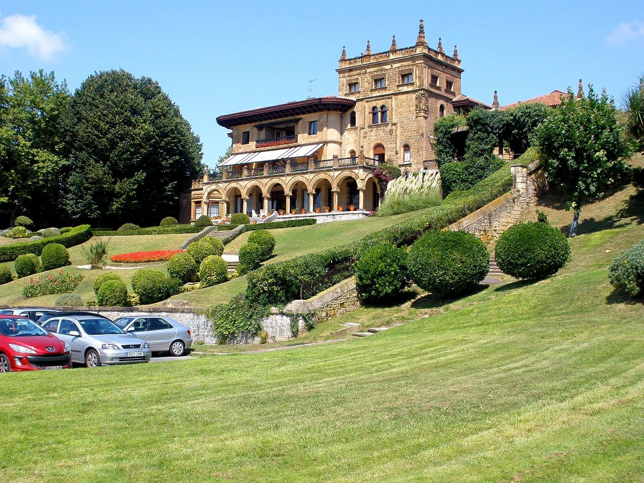 Palacio Lezama-Leguizamón, en Neguri, Guecho (Vizcaya)